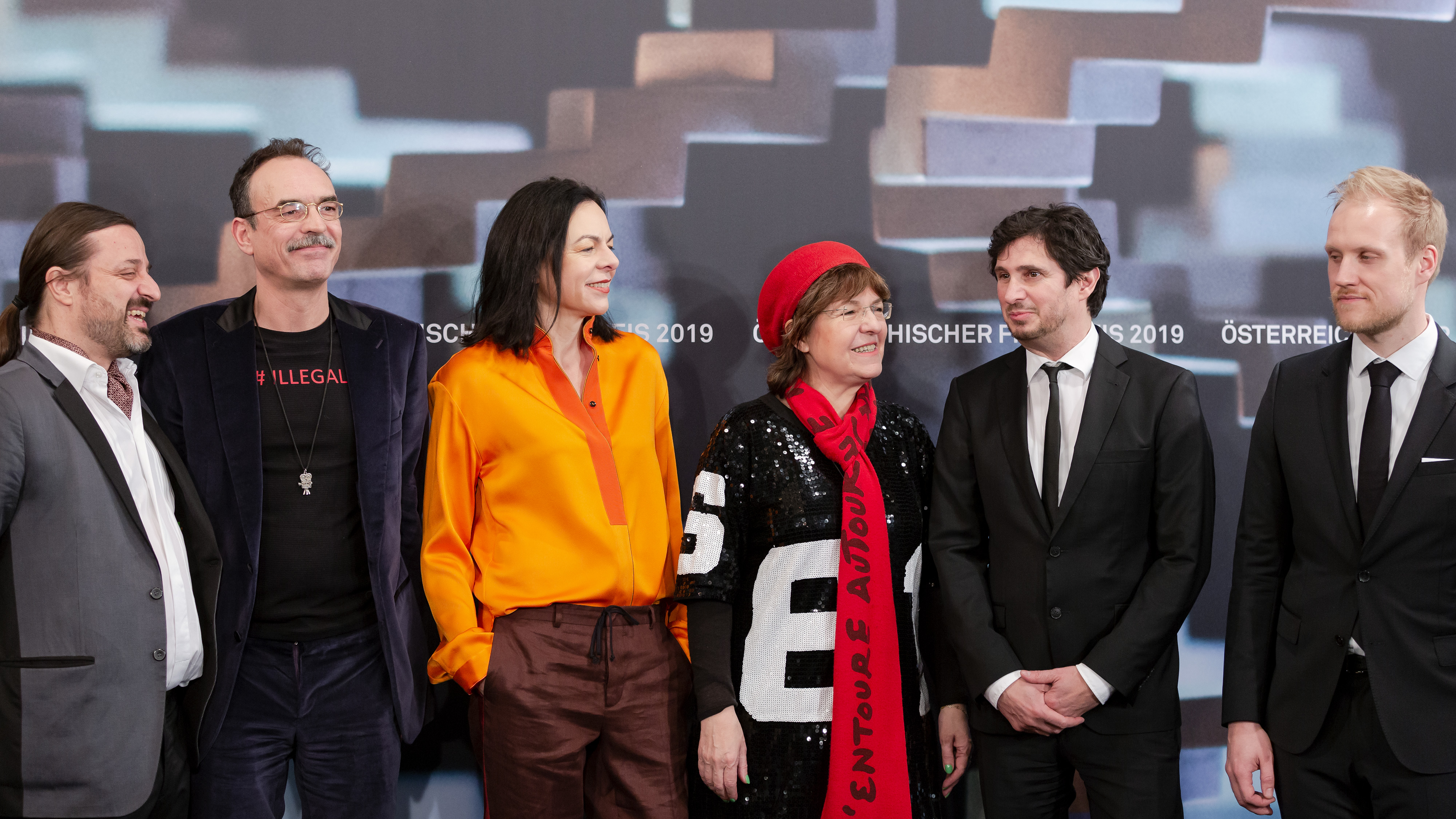 Part of the film team of "Styx", l.t.r. Alexander Dumreicher-Ivanceanu, Benedict Neuenfels, Monika Willi, Bady Minck, Marcos Kantis and ?, photo call at the Austrian Film Awards 2019 (Rathaus, Vienna,Austria).